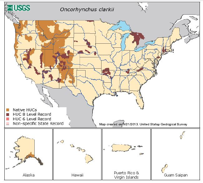 Native and Introduce range map for Oncoryhnchus clarki, cutthroat trout.